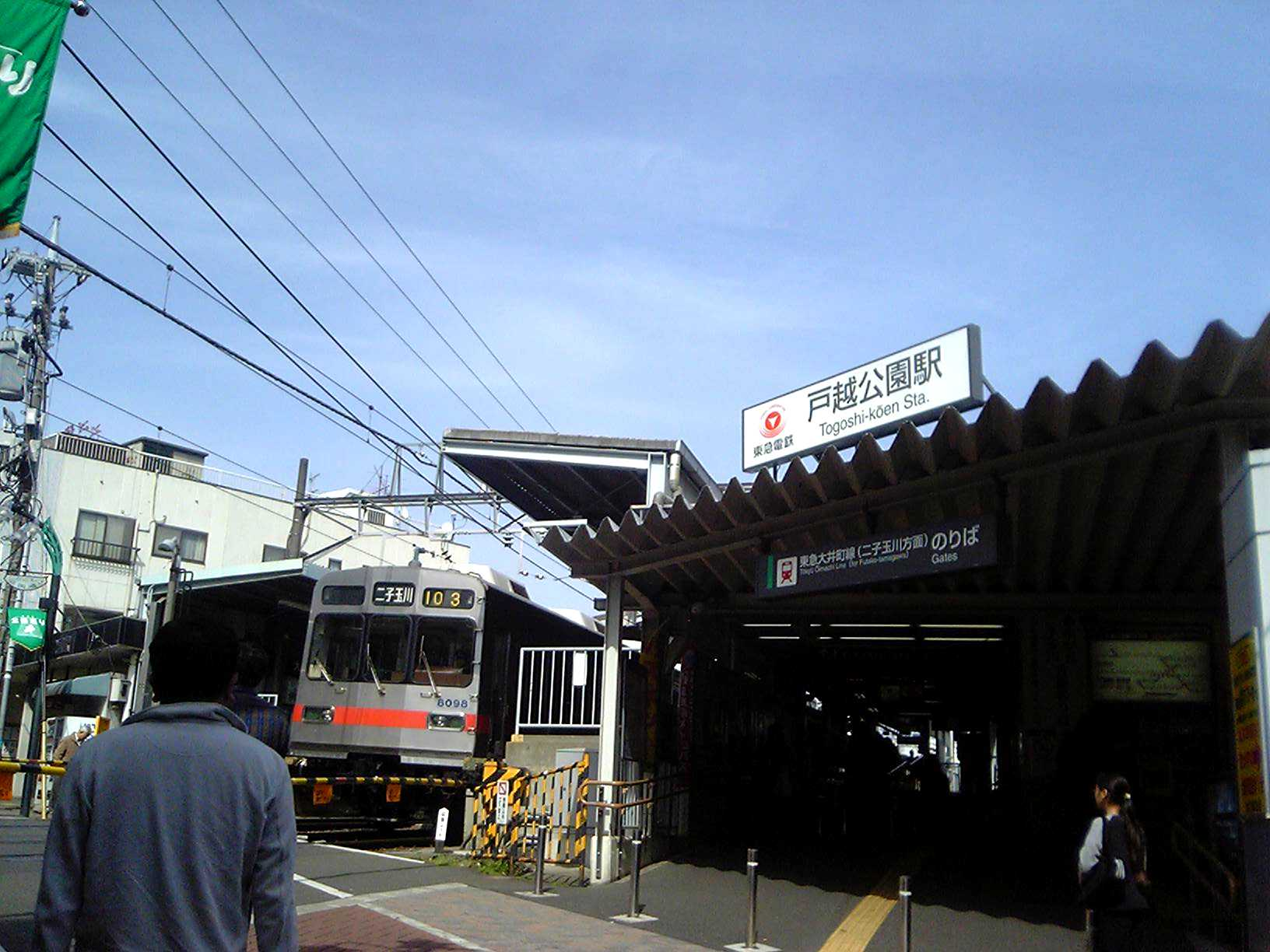 An entrance of Togoshi-koen Station.